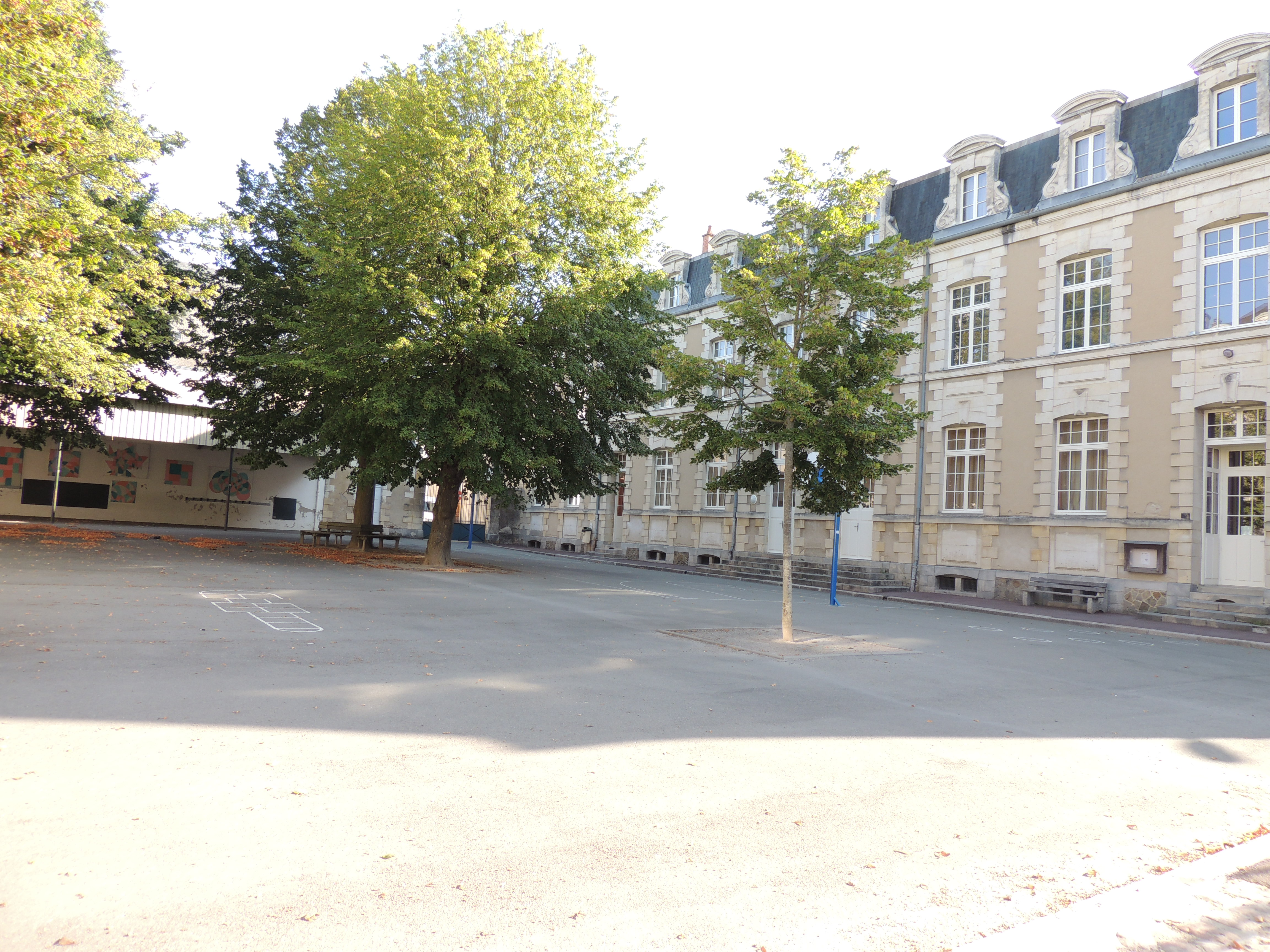 La cour de l'école Descartes à La Flèche